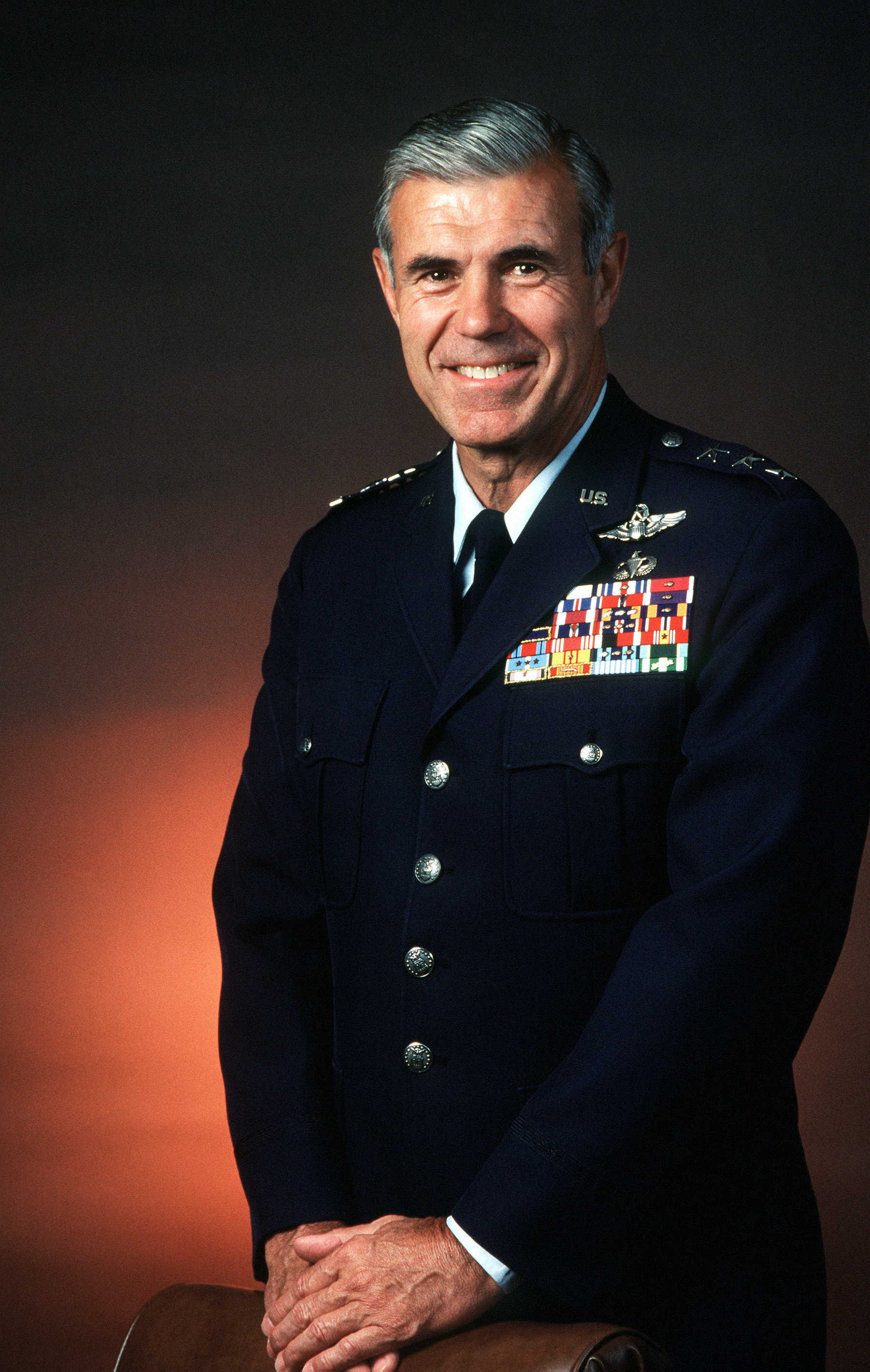 General Thomas C. Richards as a Lieutenant General